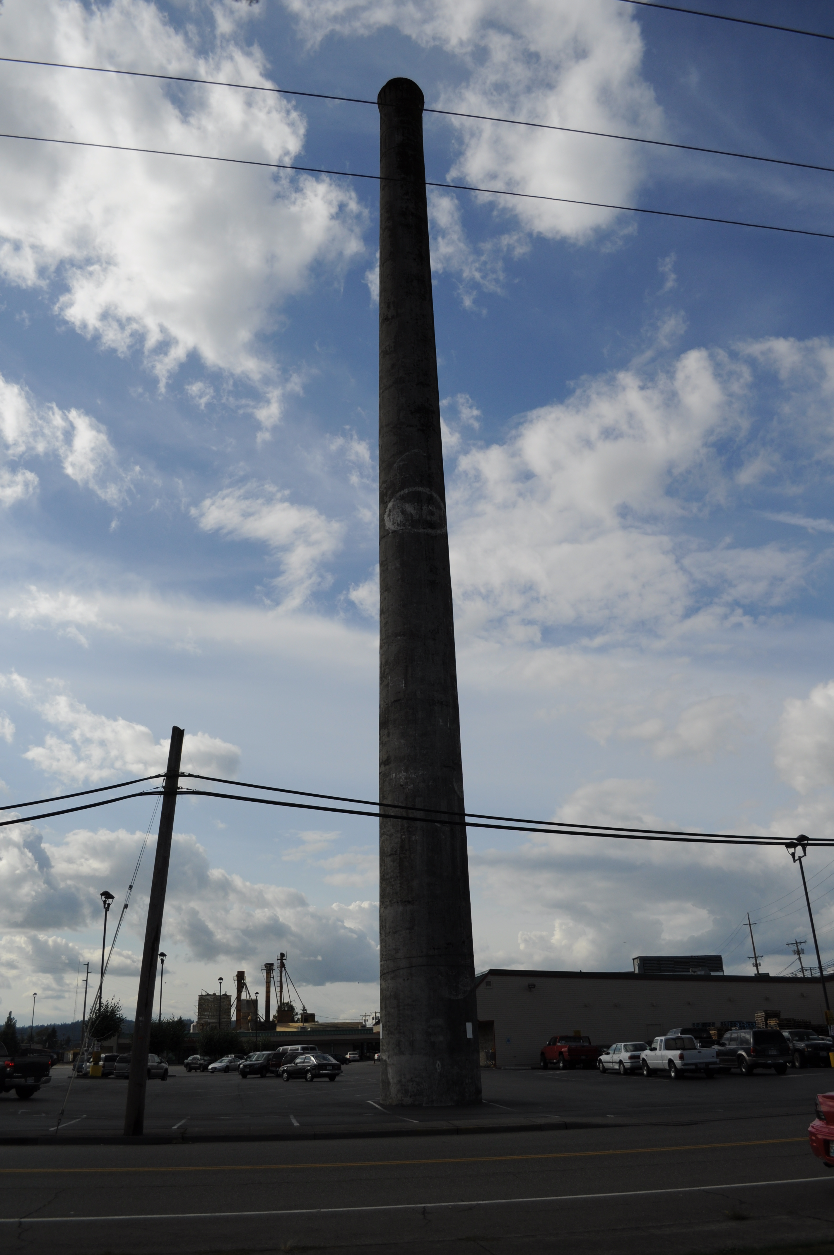 Carnation Condensery Stack, Monroe, Washington. At left a shop on E. Main St. The Carnation Condensery factory was destroyed by fire in the 1940s, but its smokestack still stands near the intersection of Monroe's E. Main Street and US Route 2.